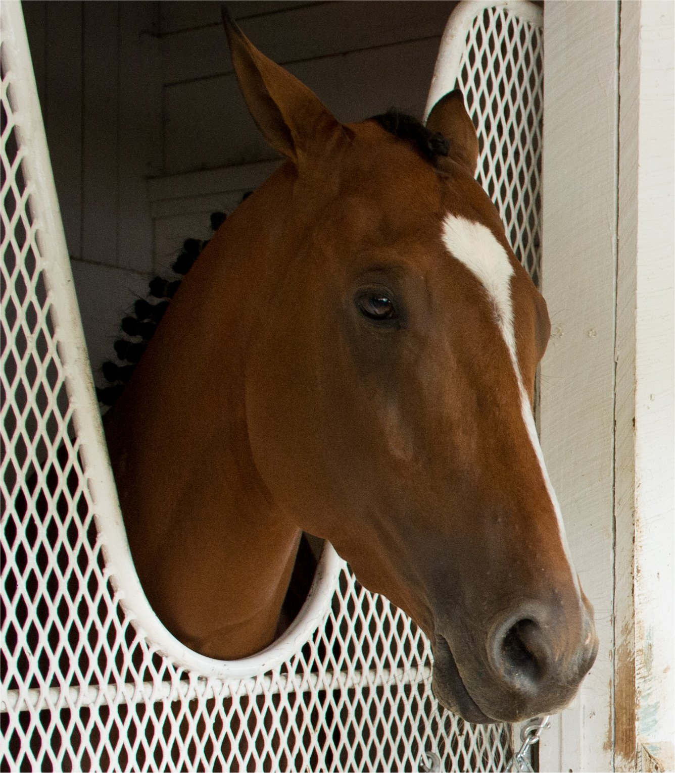 The 138th Annual Preakness photographed by Jay Baker at Pimlico, Baltimore, MD in May 2013. Lieutenant Governor Anthony G Brown with fifth place finisher Goldencents.